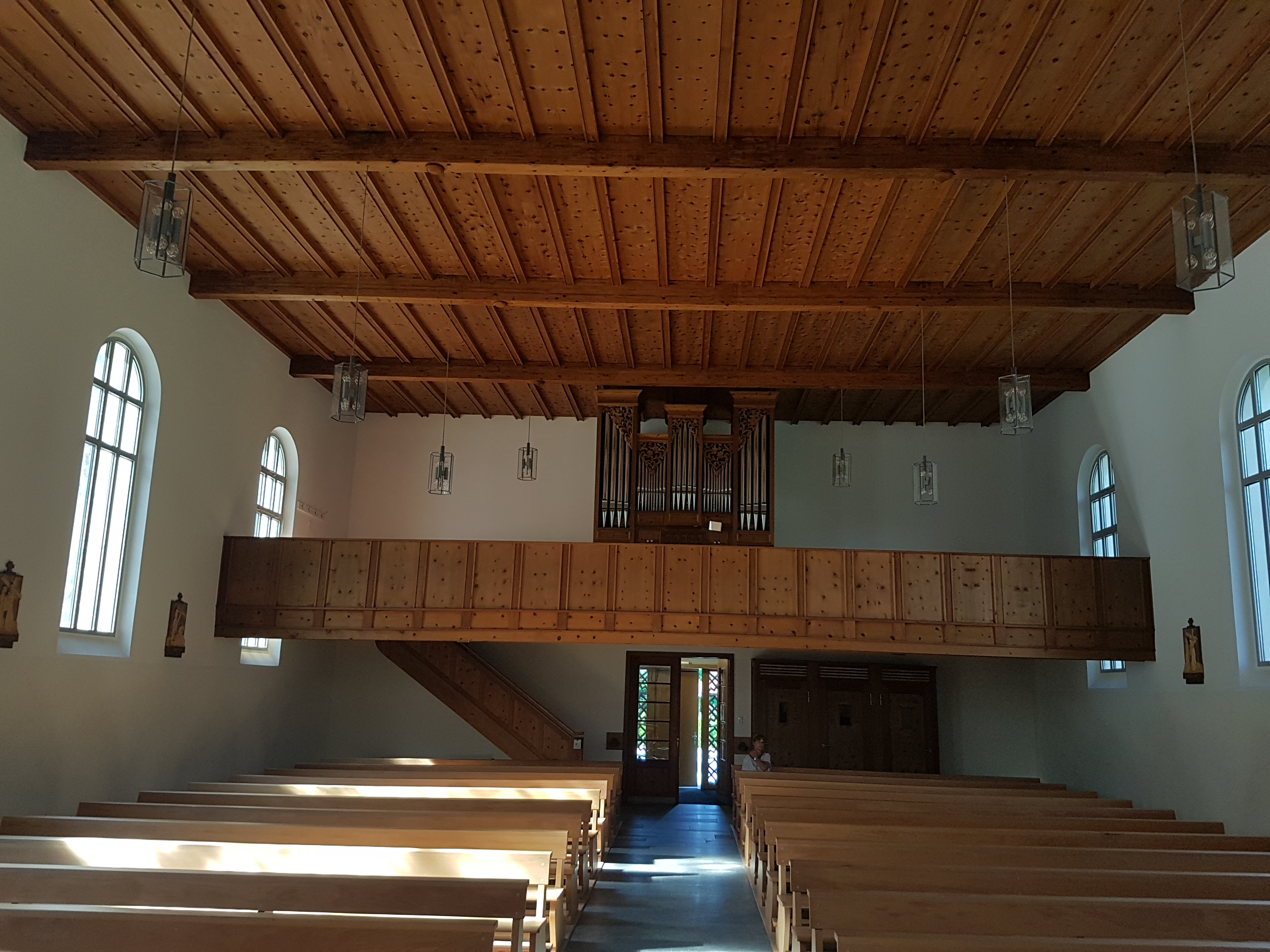 Le Prese in Valposchiavo, Grisons, Switzerland. Catholic Church of San Francesco d'Assisi.